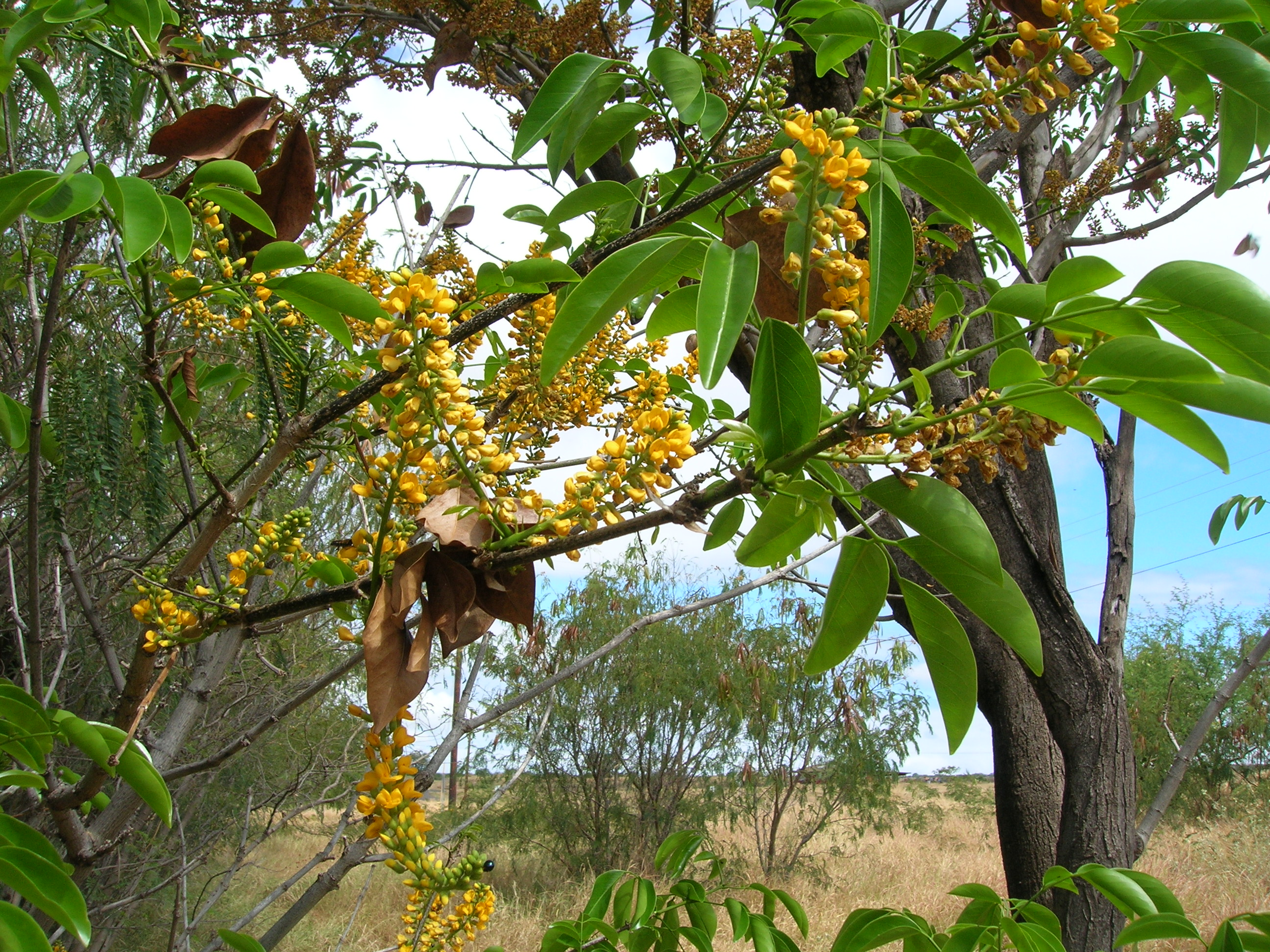 Platymiscium stipulare (branches). Location: Molokai, Kalanianaole Colony